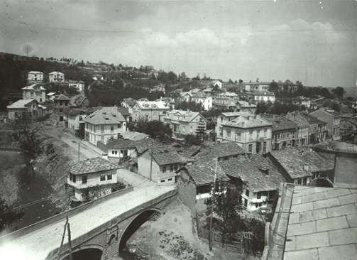 Album with photos of houses, churches, public buildings, industrial enterprises in Gabrovo, Bulgaria.